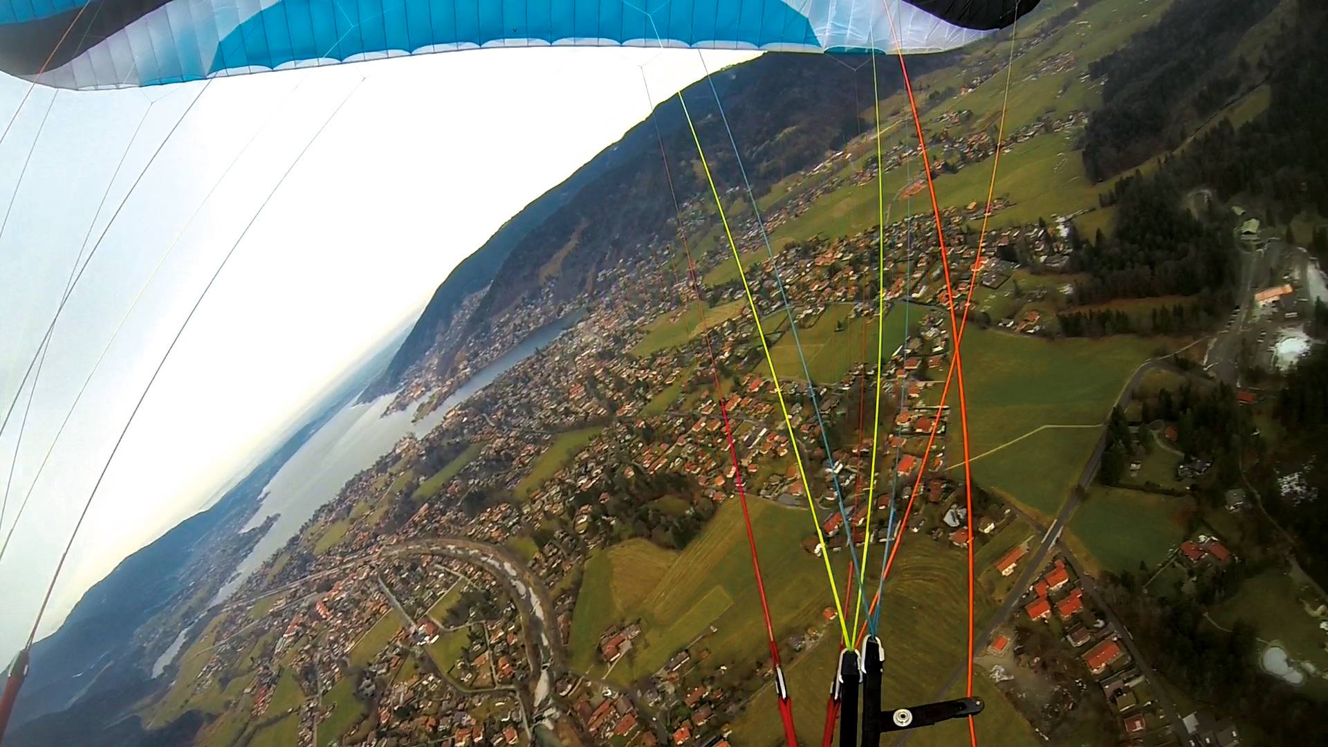 paraglider doing deep spiral